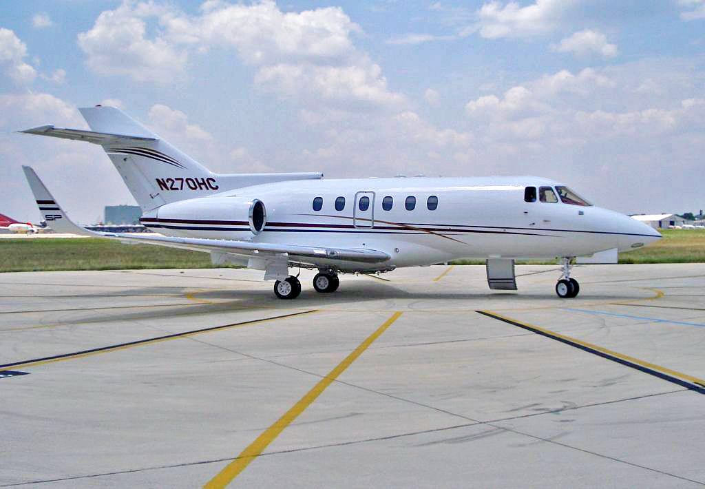 Photo taken by me [--El-dodo 04:45, 30 June 2006 (UTC)} of Hawker 800SP N270HC (SN 258020) at San Antonio International Airport (KSAT) on June 29, 2006 during post re-paint and winglet up-grade system tests. Photo released into public domain.--El-dodo 04:45, 30 June 2006 (UTC)